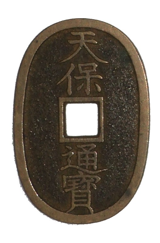 A Tenpō Tsūhō (天保通寳) cash coin issued during the Edo period in Japanese history.